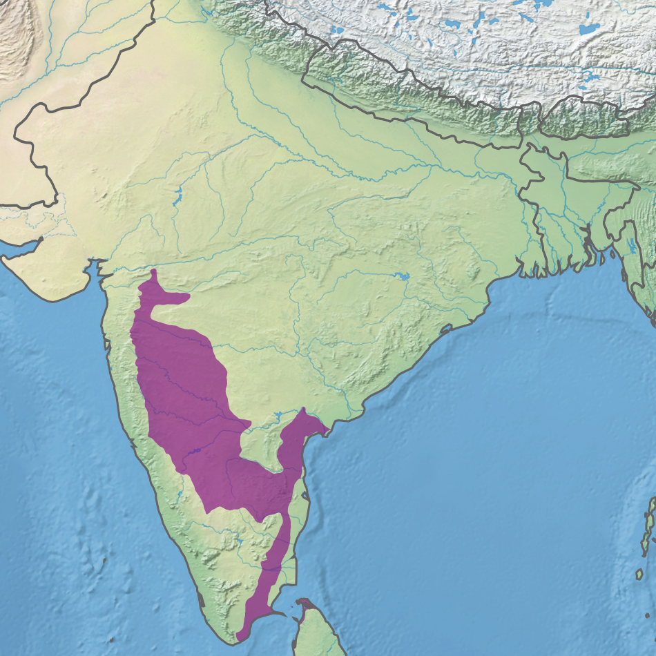 Ecoregion IM1301 - Deccan thorn scrub forests (in purple)